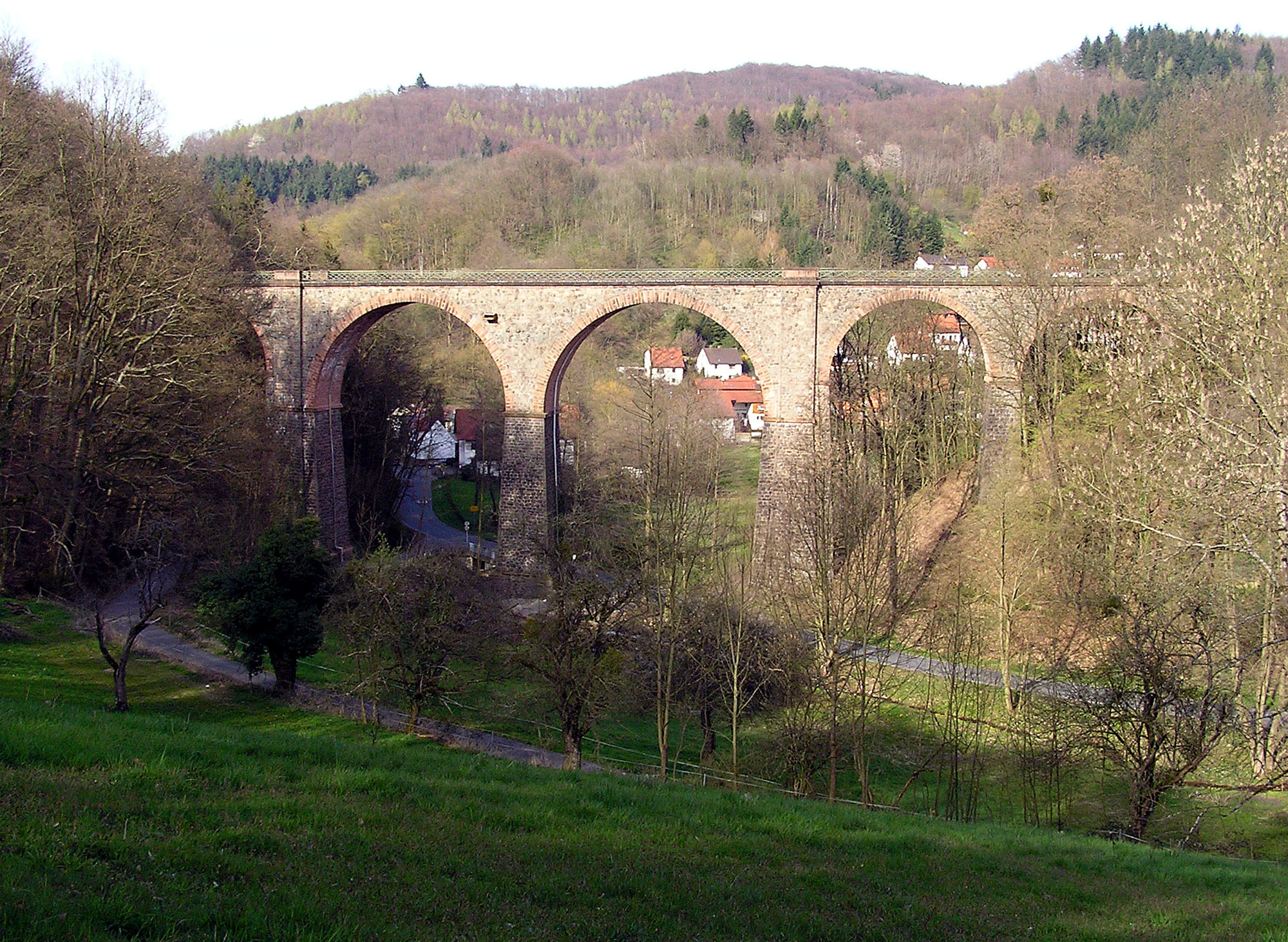 Viaduct in Mörlenbach-Weiher (Hesse, Germany) from the old Überlandbahn